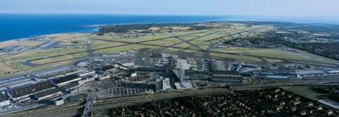 Kastrup airport of Copenhagen